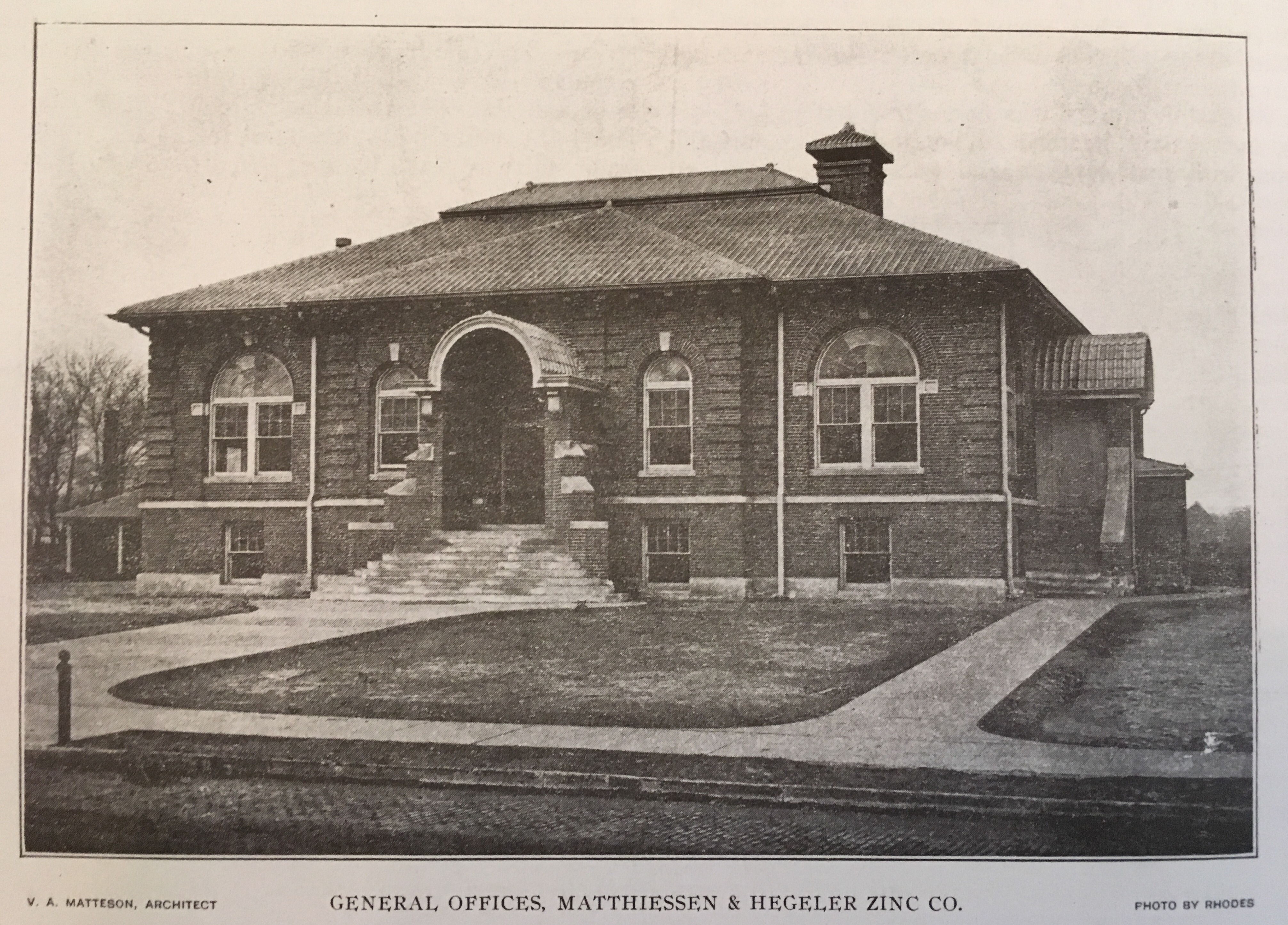 Designed by Victor Andre Matteson, the General Office of the Matthiessen and Hegeler Zinc Company of LaSalle, Illinois.